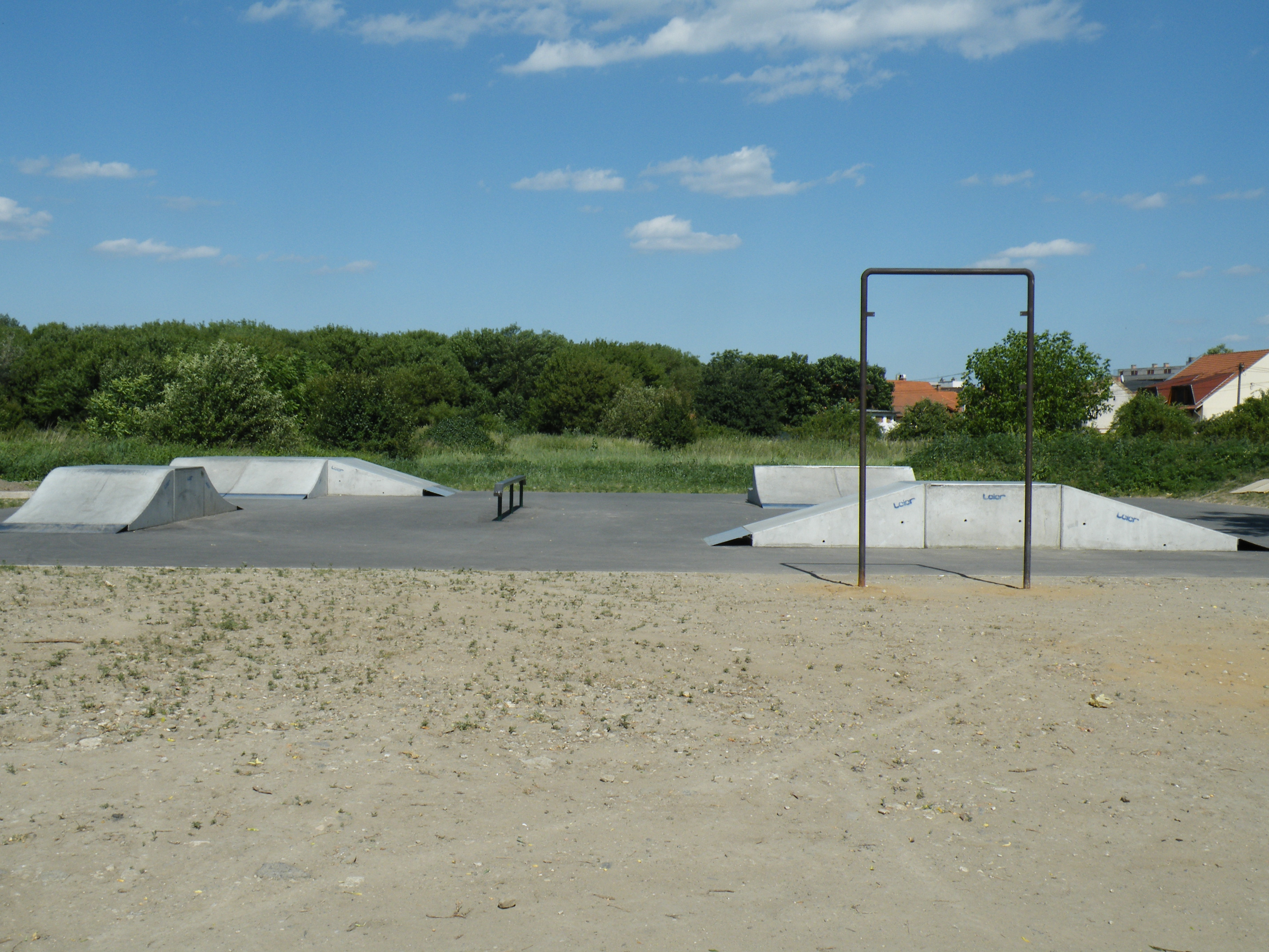 New skatepark in Balassagyarmat